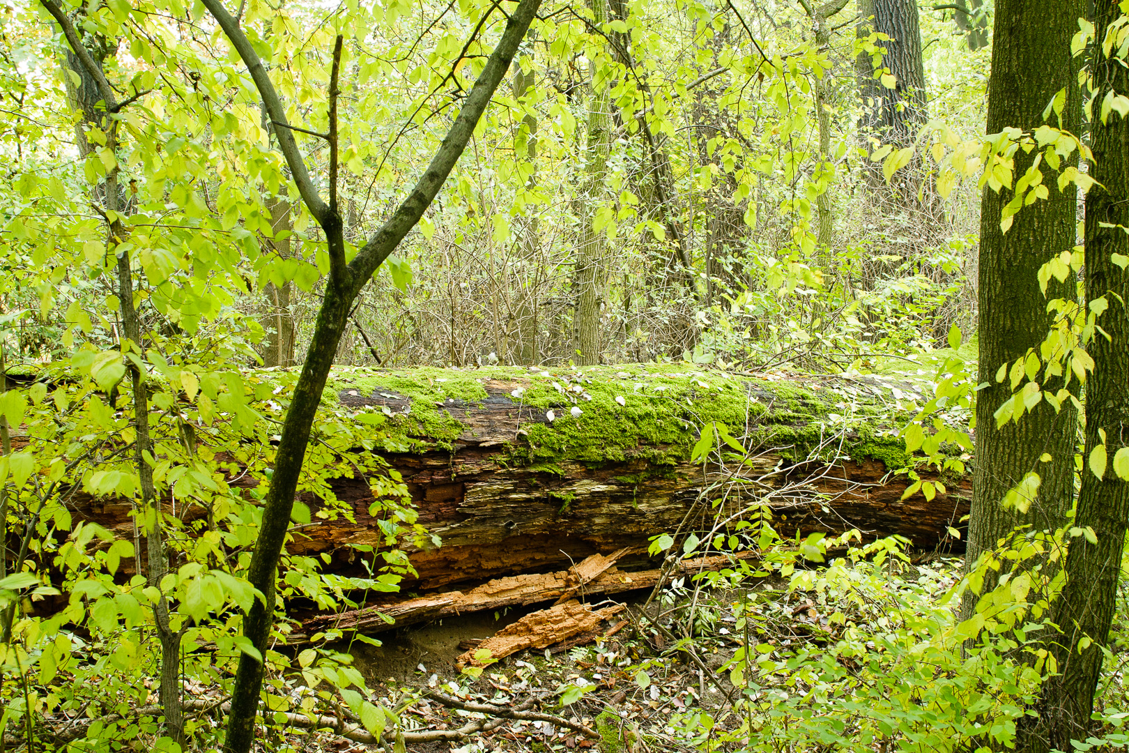 Morysin nature reserve and Morysin park in the overlapping area - dead wood (a lying trunk). Wilanów, Warsaw, Poland.